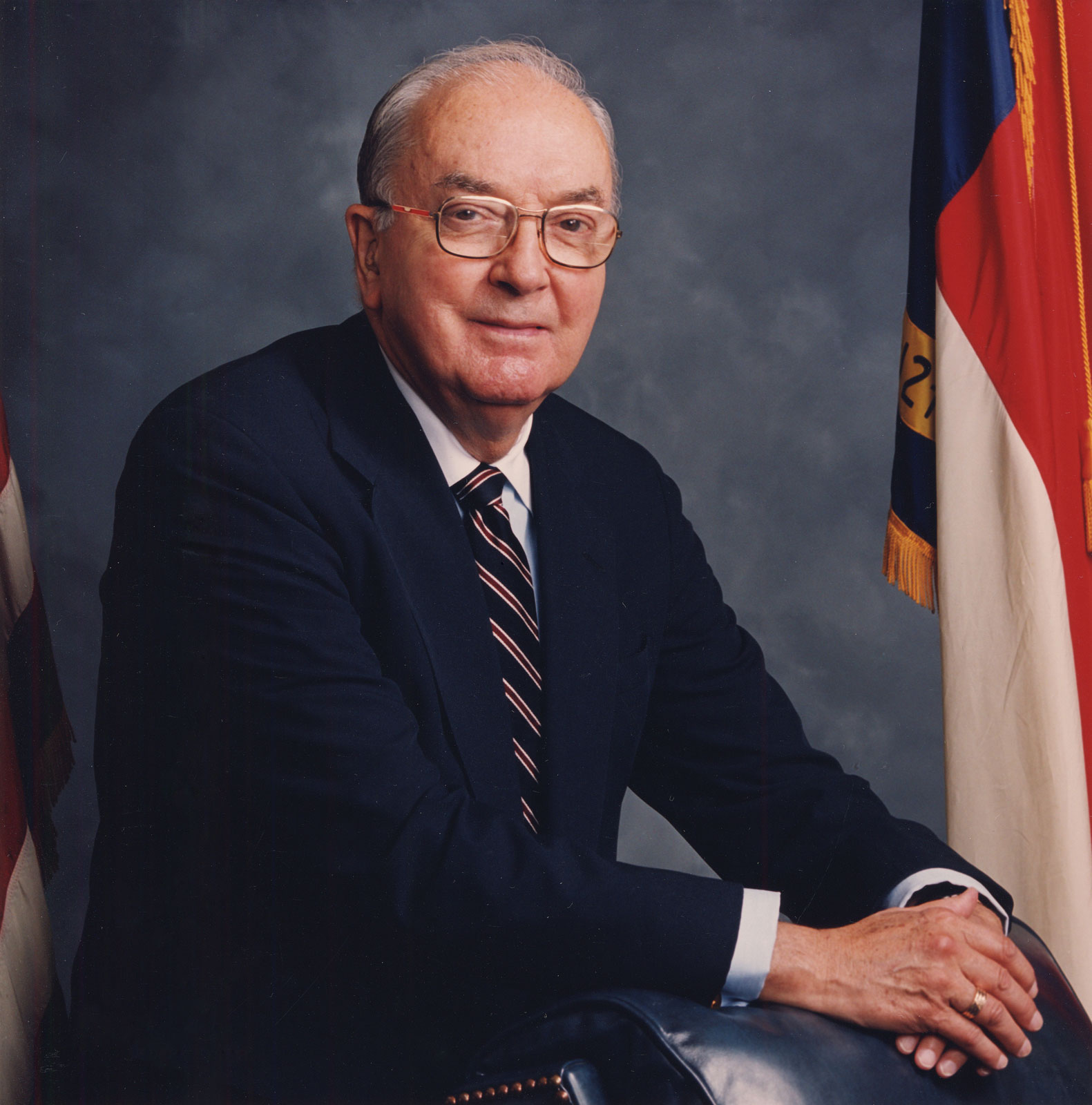 Jesse Helms. Copy from